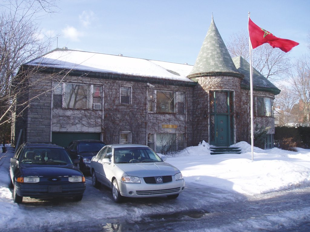 Embassy of Morocco in Ottawa, Canada